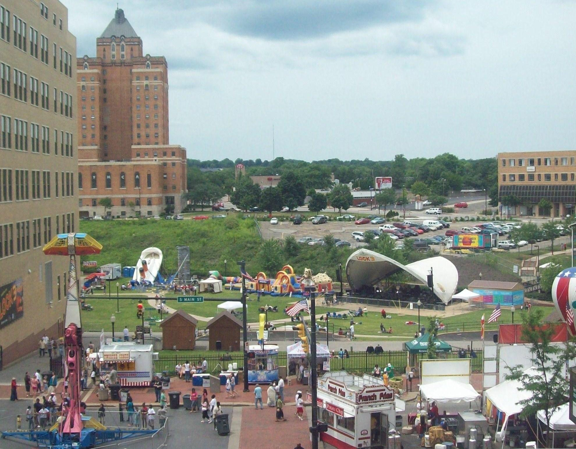 Lock 3 Park on 4 of July